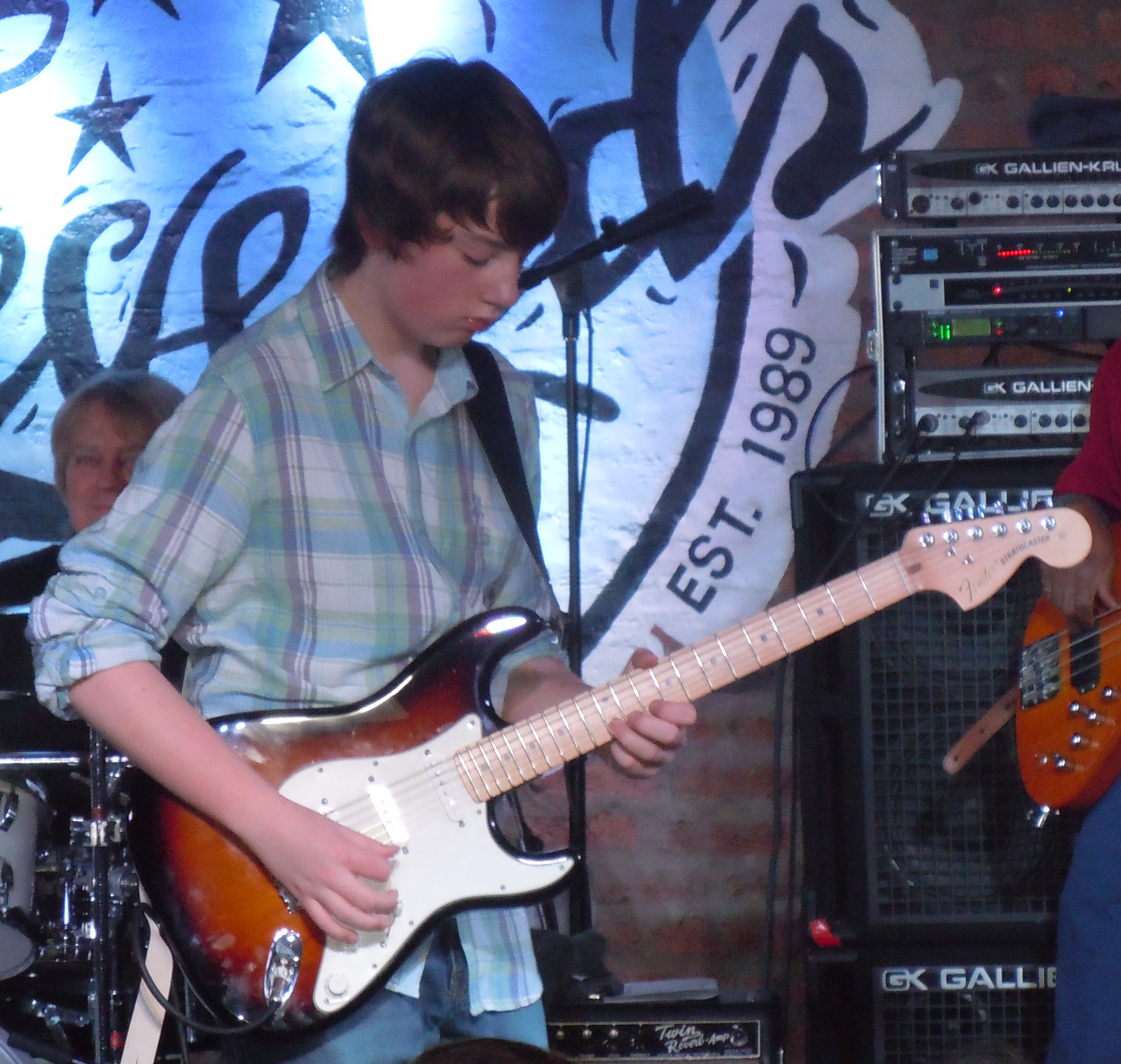 Quinn Sullivan